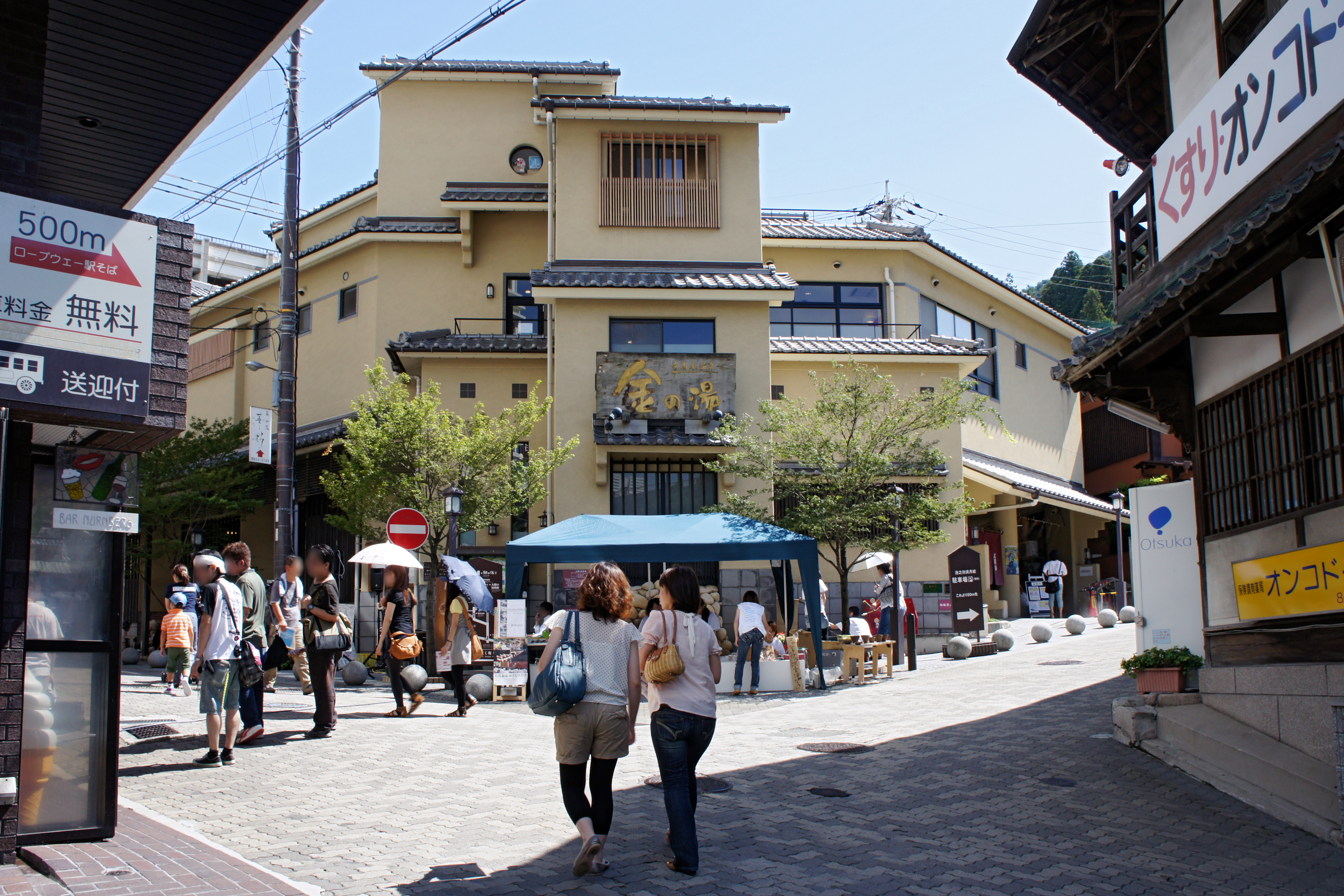 Kin-no-yu in Arima onsen, Kobe, Hyogo prefecture, Japan